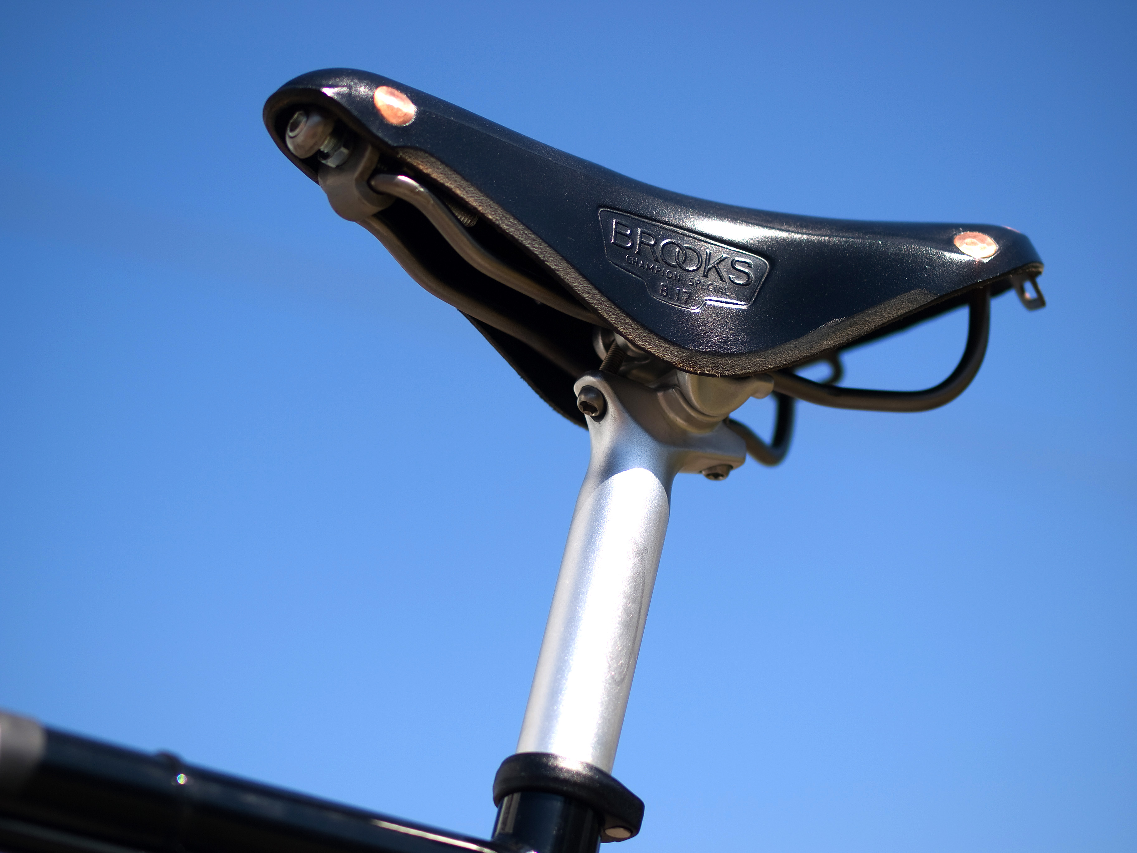 Brooks B17 Titanium